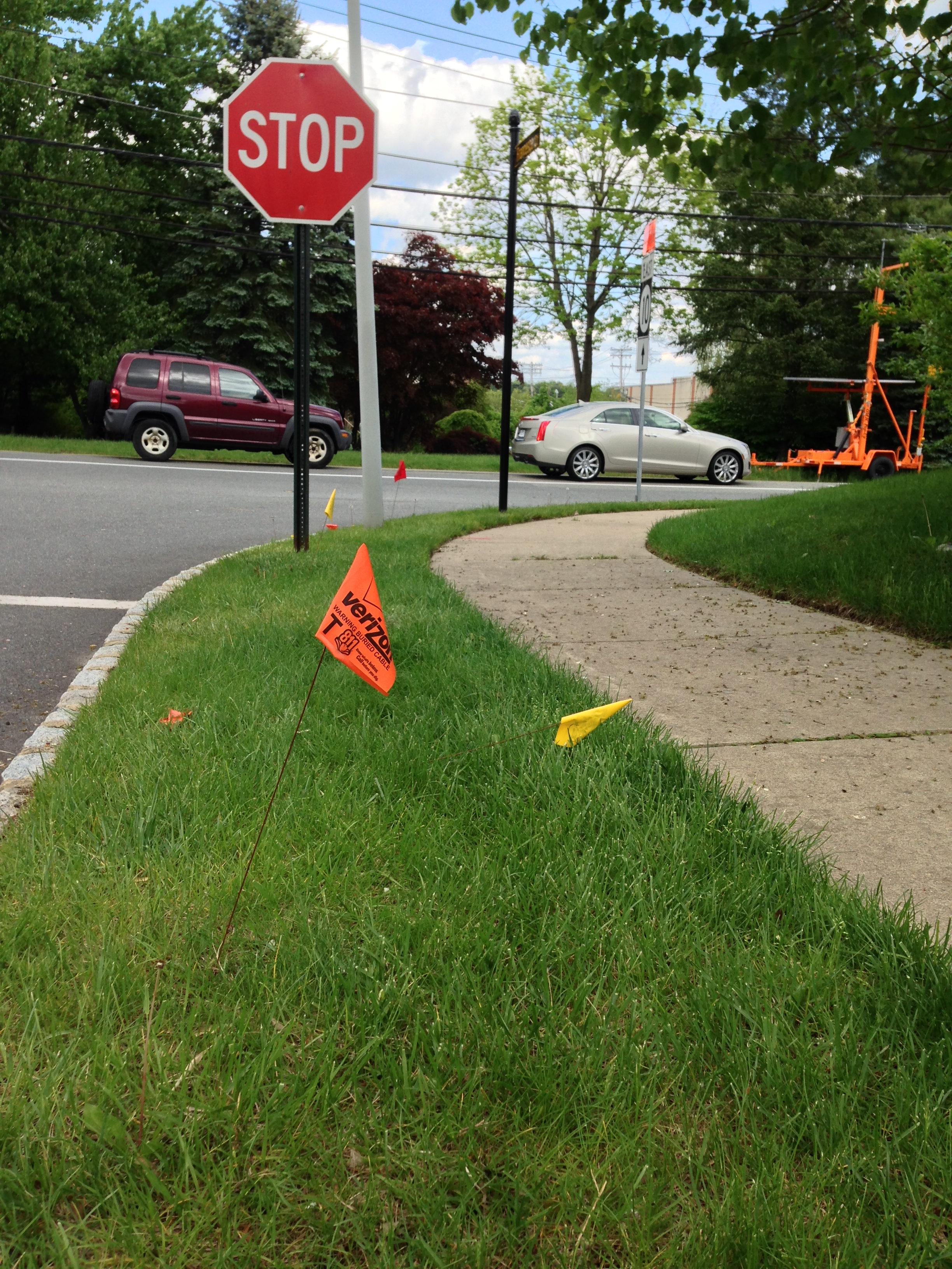 Colored flags used for utility locations. The color coding is based on APWA Uniform Color Codes.